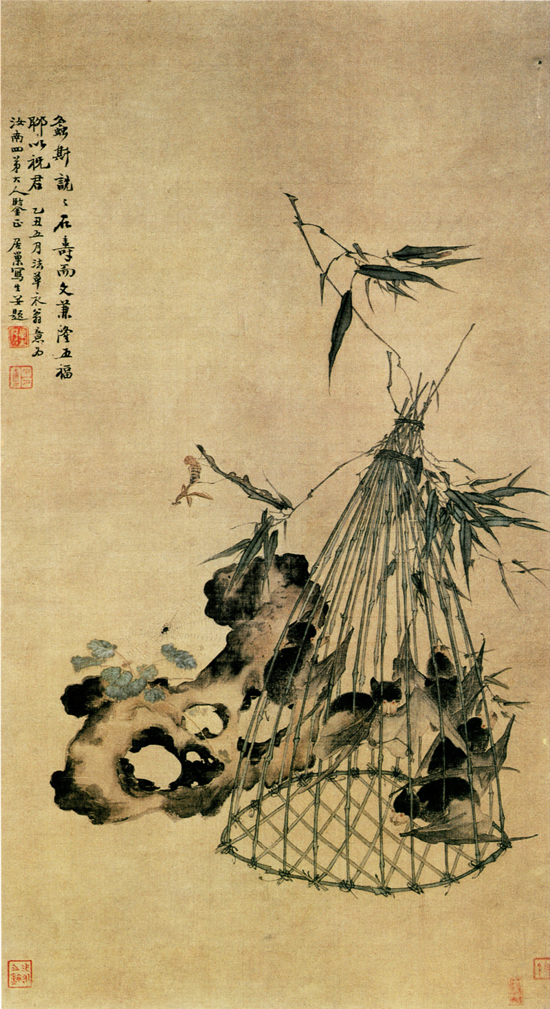 Five Bats, Ju Chao, Qing Dynasty, China, Guangdong Museum